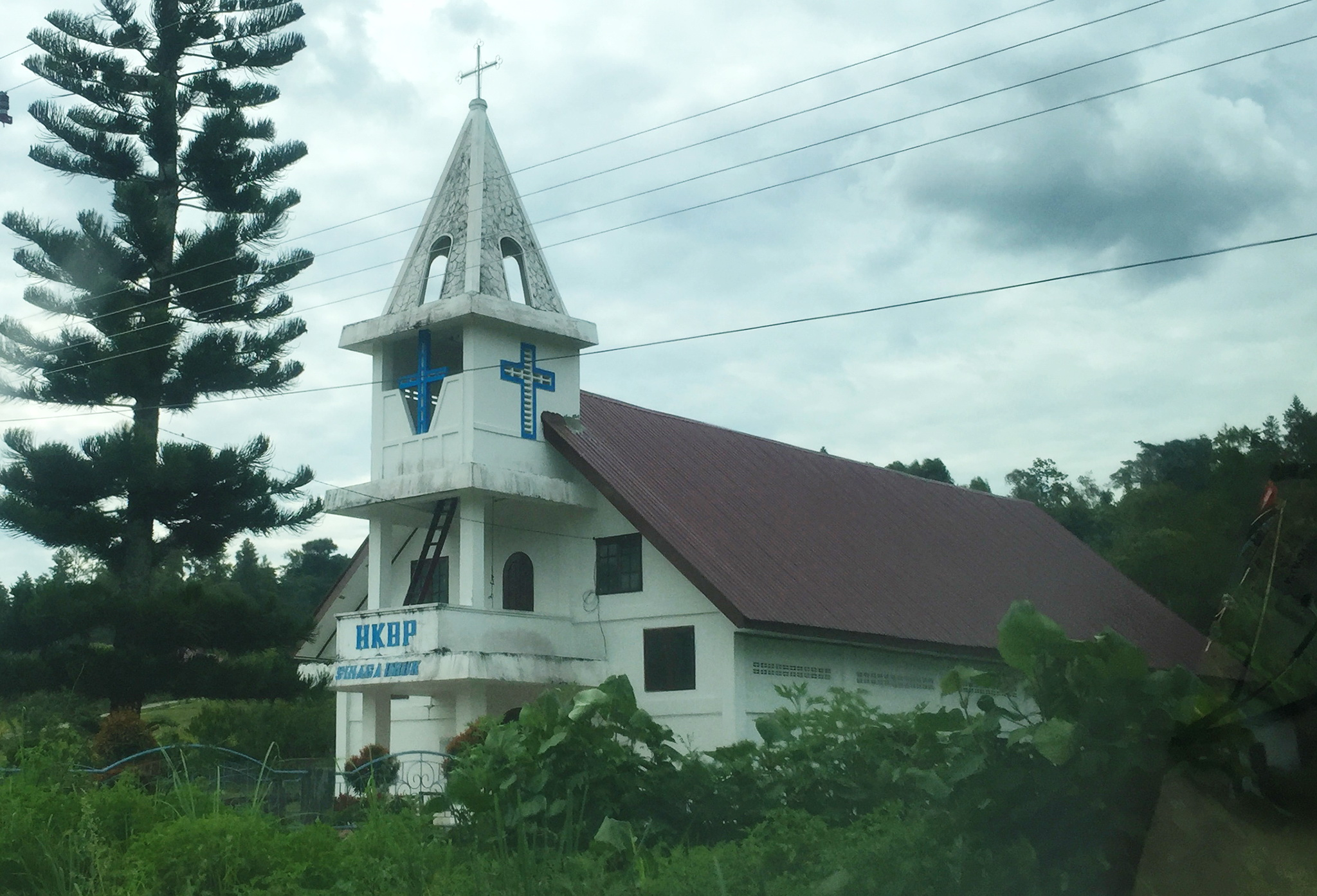 HKBP Sinaga Uruk, Church in Urat II, Palipi, Samosir